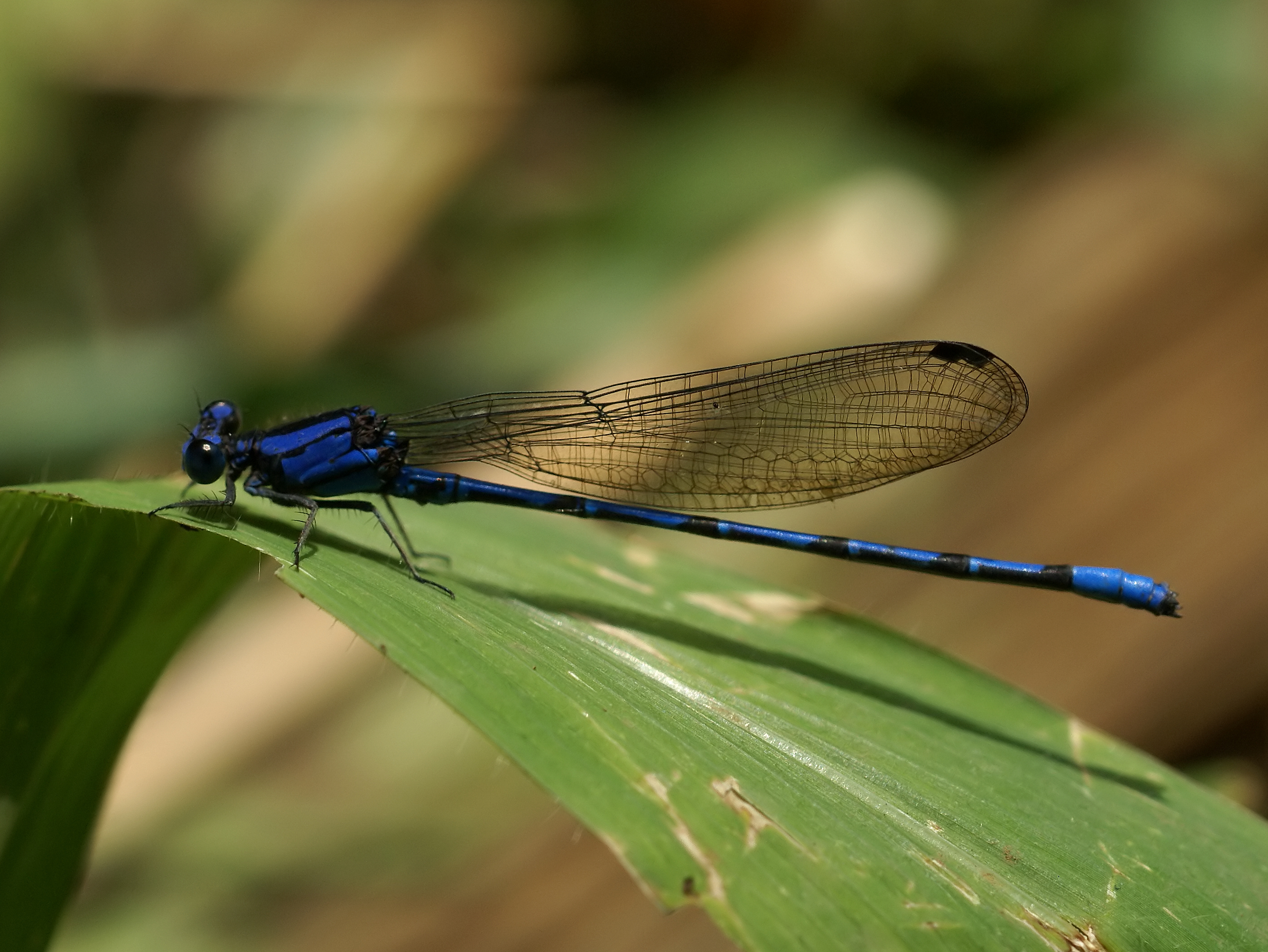 Spine-tipped Dancer at La Garita, Alajuela, Costa Rica